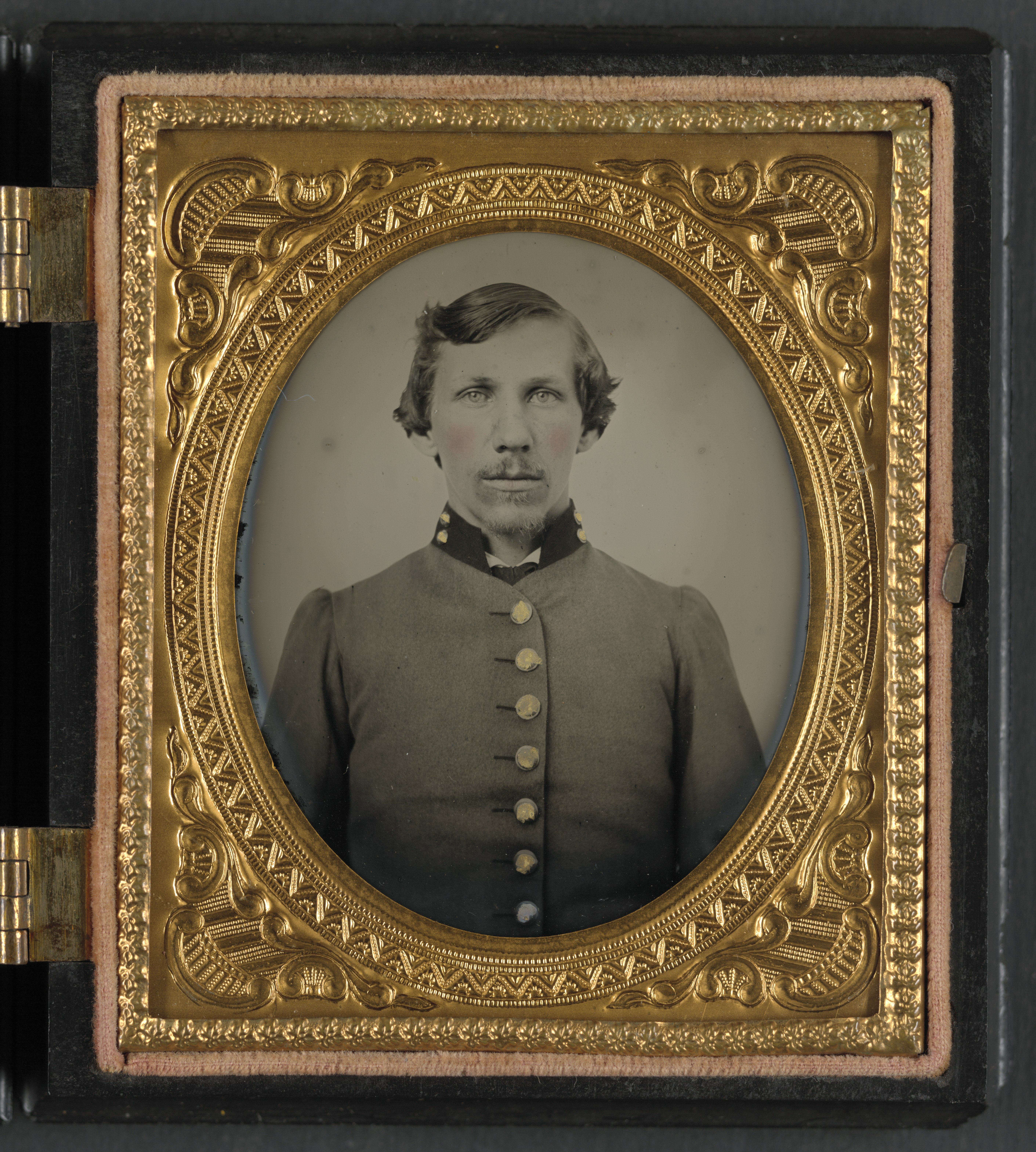 Title: Lieutenant Smith Whitfield of Co. B, 24th Tennessee Infantry Regiment in uniform Abstract/medium: 1 photograph : hand-colored ruby ambrotype ; plate 80 x 70 mm (sixth plate format), case 98 x 88 mm.